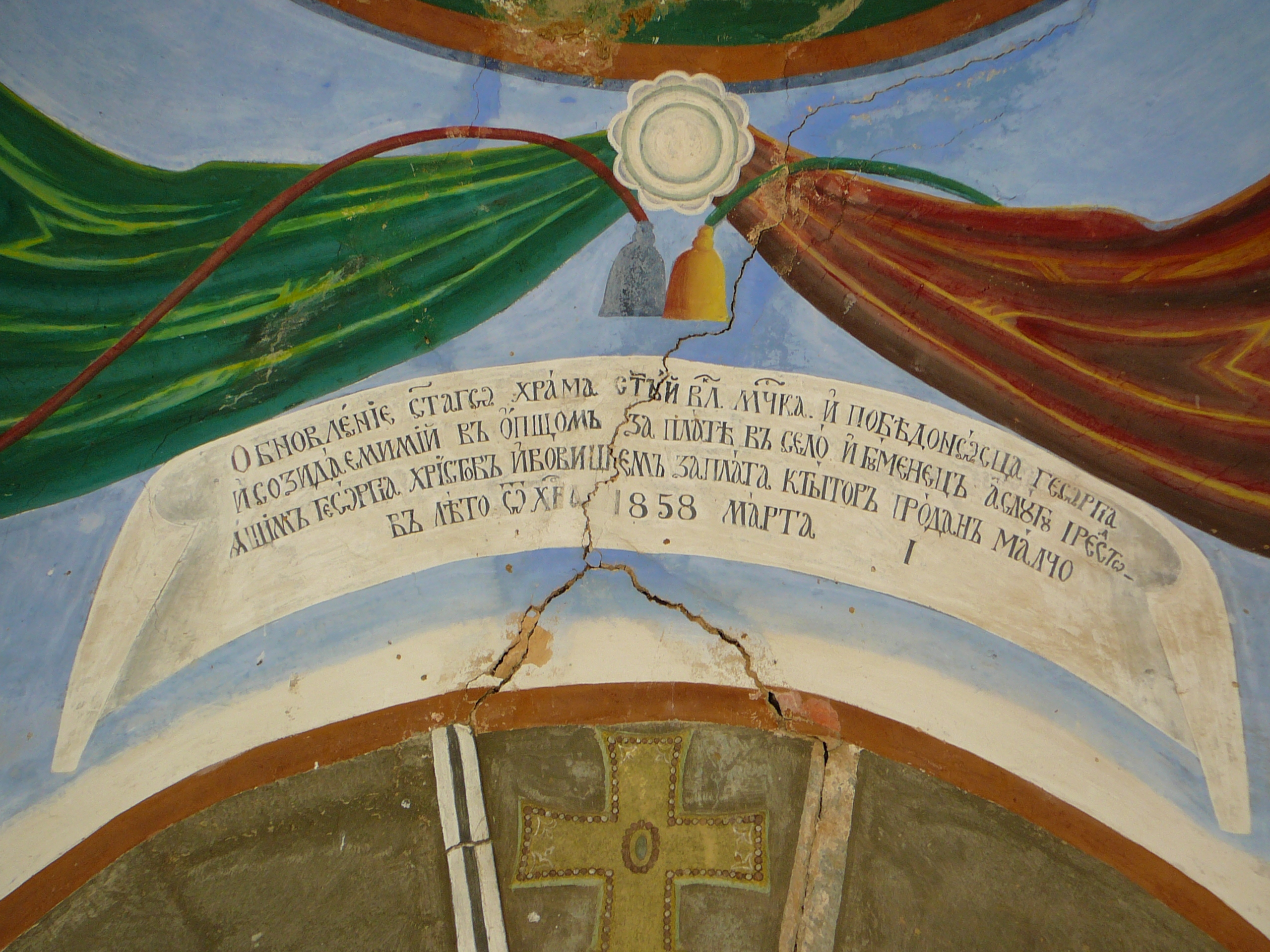 Donor inscription Chourilovo Monastery, 1858, Ograzhden, , Bulgaria